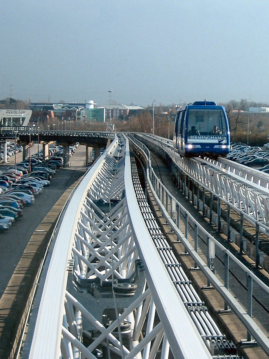 UK - Birmingham Airport - People mover, oct 2004